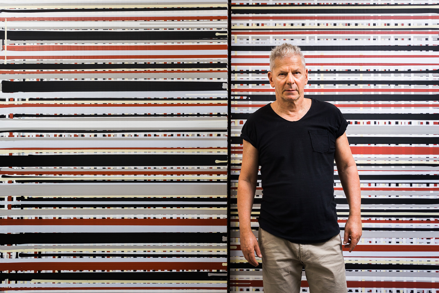 Daniel Feingold